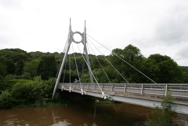 Jackfield Bridge This is a cable-stayed bridge, one of several historic bridges in the Iron Bridge Gorge. The Jackfield Bridge tower and deck is made from composite steel and concrete sections.